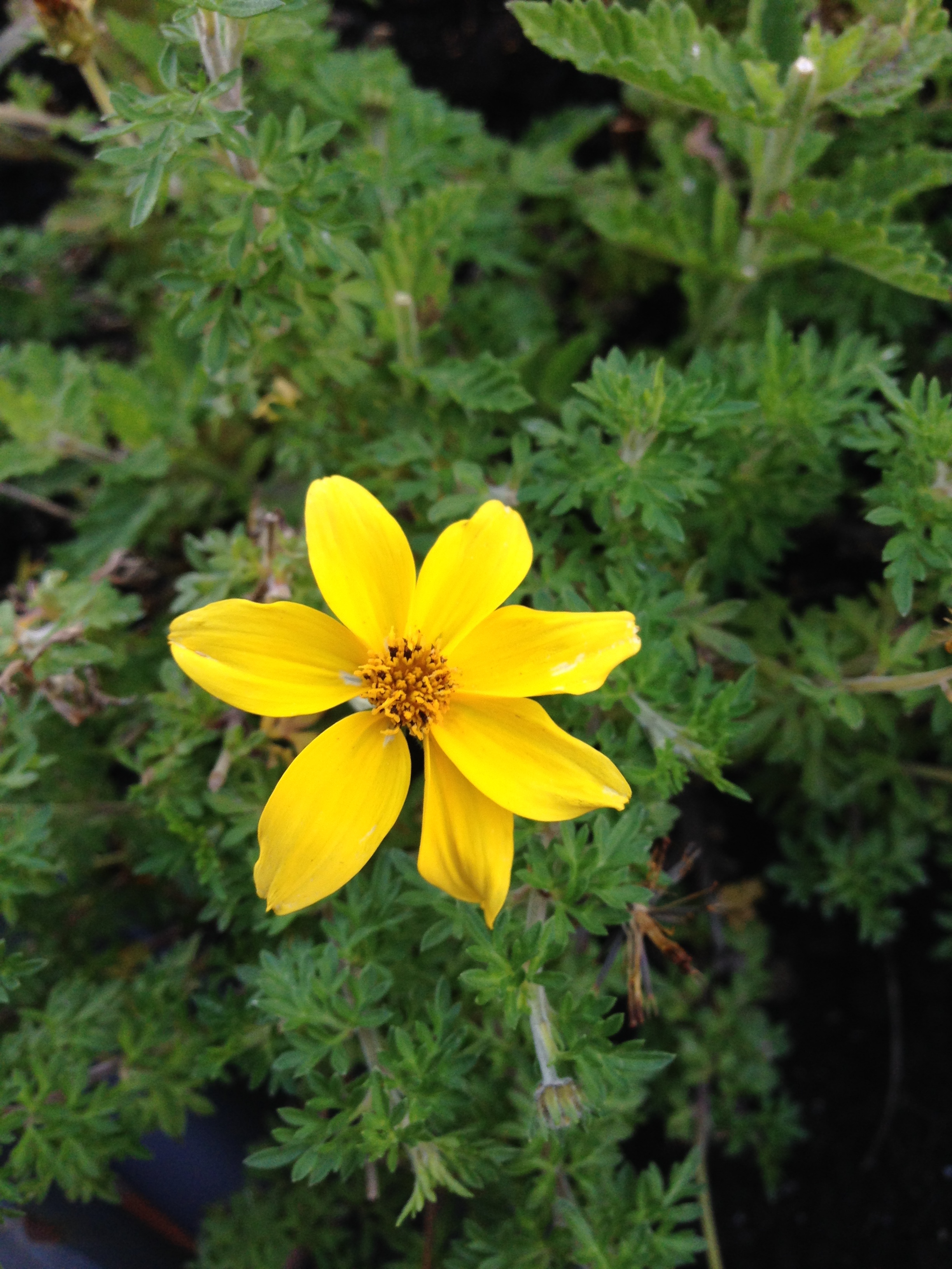 Bidens ferulifolia